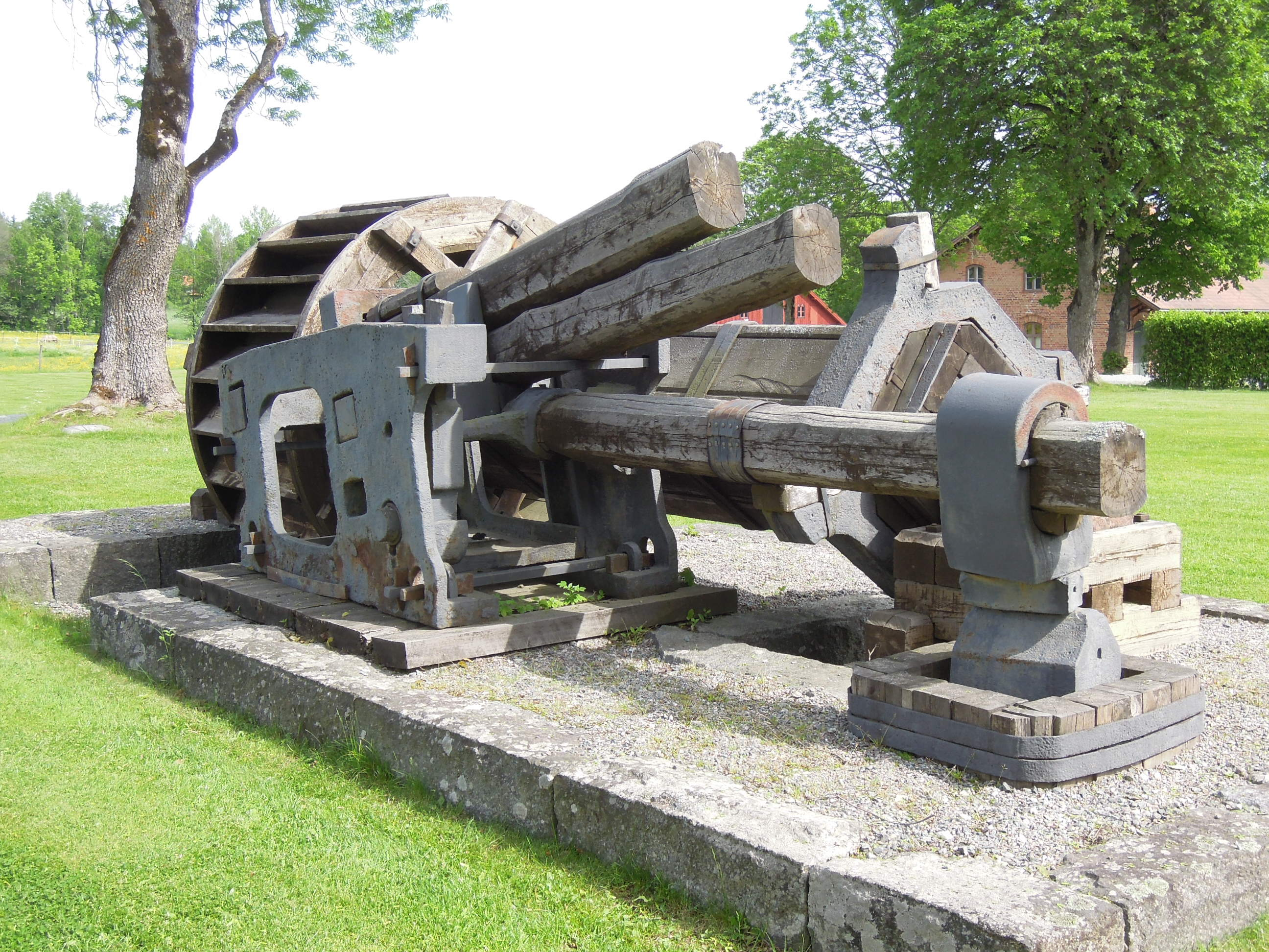 Trip hammer. Svanå, north from Västerås, Sweden